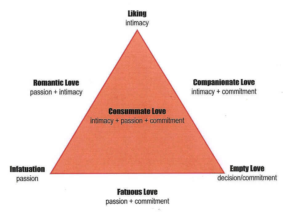 Author: Libb Thims Self-made diagram (using MS Word) based on Steinberg's triangular theory of love